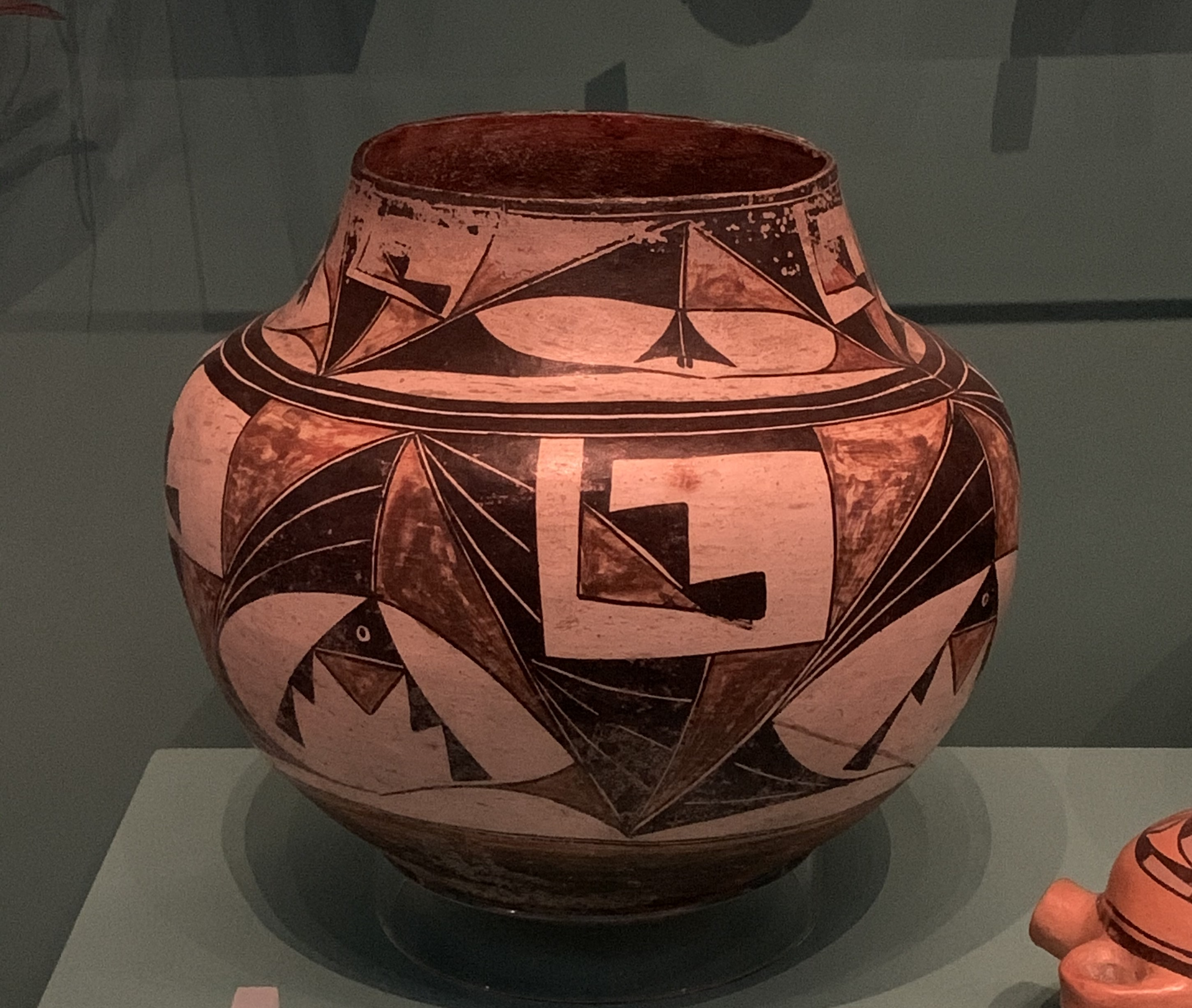 Photographed at the National Museum of Scotland, Edinburgh.